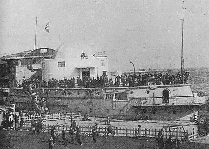 Battleship Mikasa in 1950s